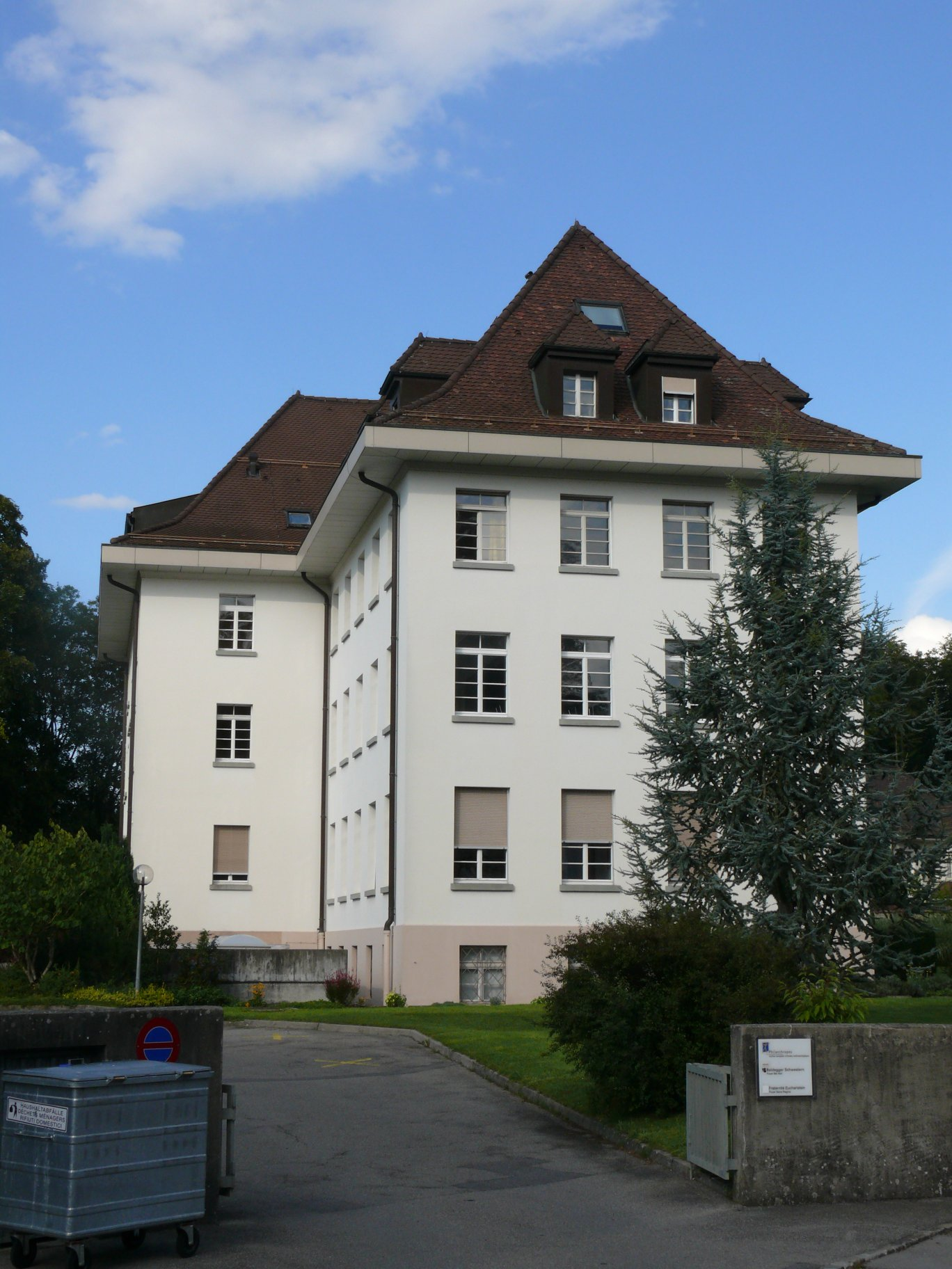 The Philanthropos institute in Fribourg (Switzerland).